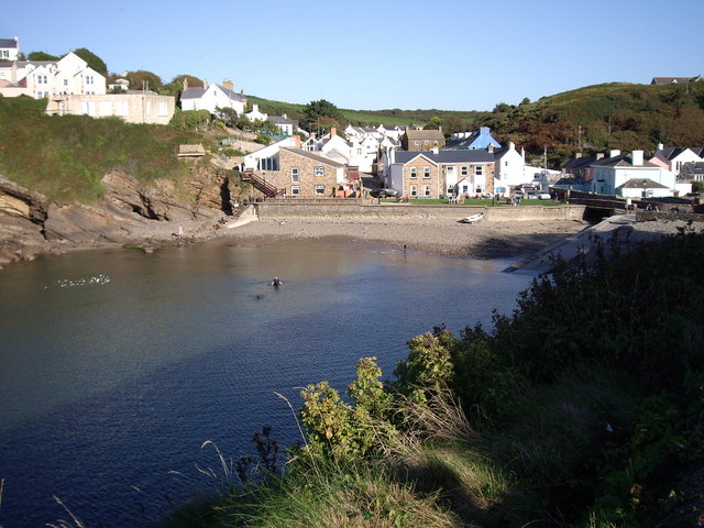 Little Haven from the path leading to The Point.